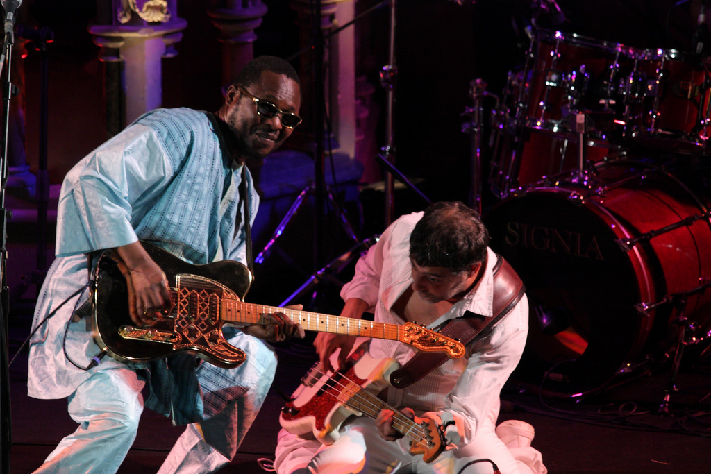 David Gilmour on the Crisis "hidden" Gig at the Union Chapel in 2009.